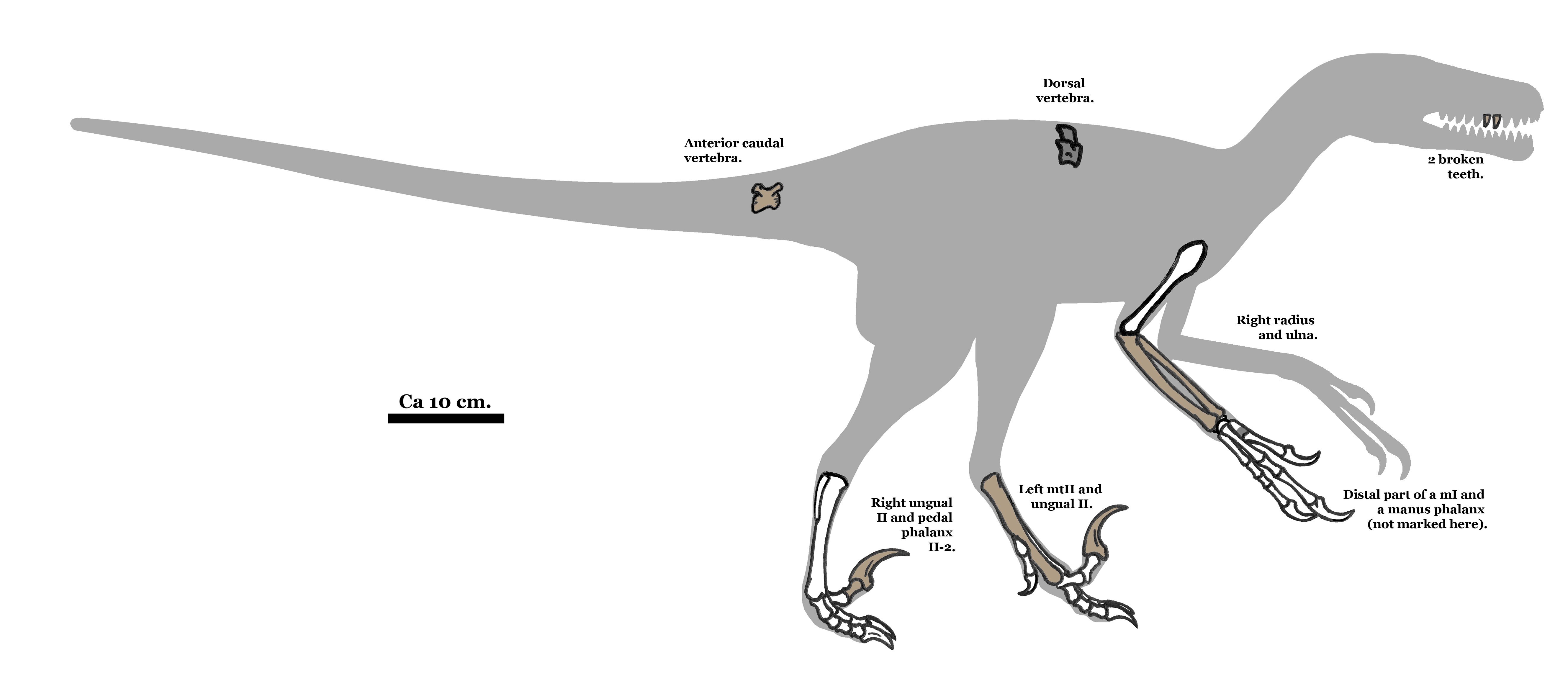 Diagram showing the fossil pieces known from the Dromaeosaurid dinosaur Pyroraptor olympius.[1] Note: bones which are known, but not shown in the original paper, are coloured grey. References ↑ Allain R & Taquet P (2000), "A new Genus of Dromaeosauridae (Dinosauria, Theropoda) from the Upper Cretaceous of France", Journal of Vertebrate Paleontology 20(2): sid. 404-407.